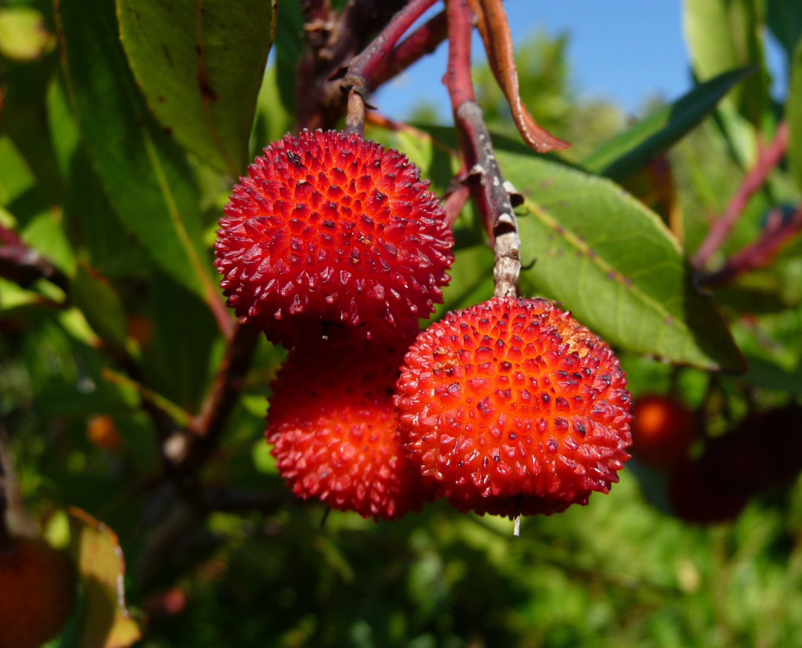 Fruits of Arbutus unedo, Macchia near Livorno, Italy